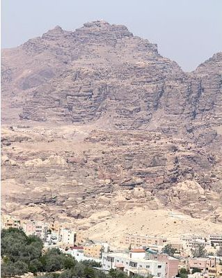 Mt. Hor, Jordan